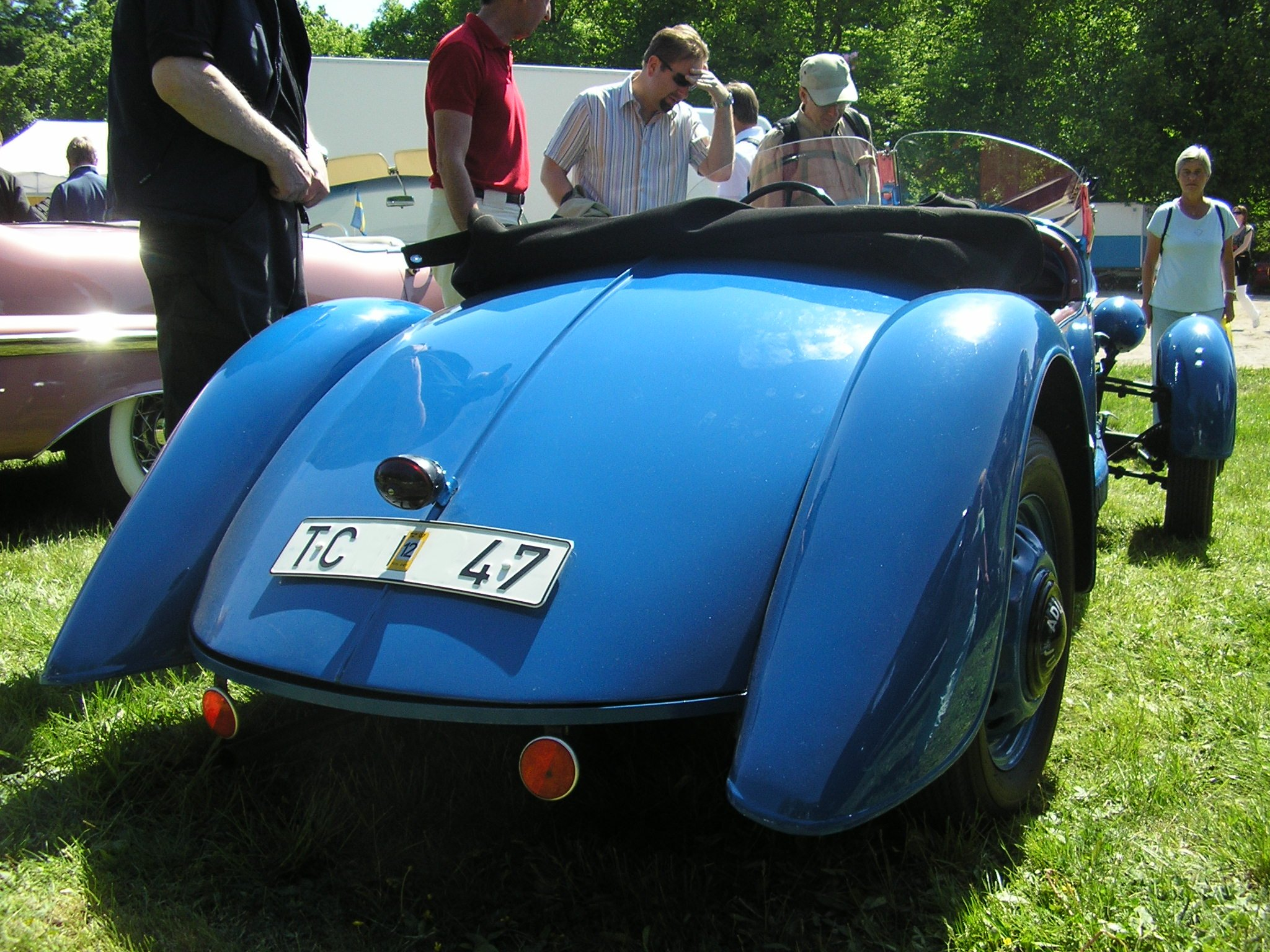 1937 Adler Triumph Sport